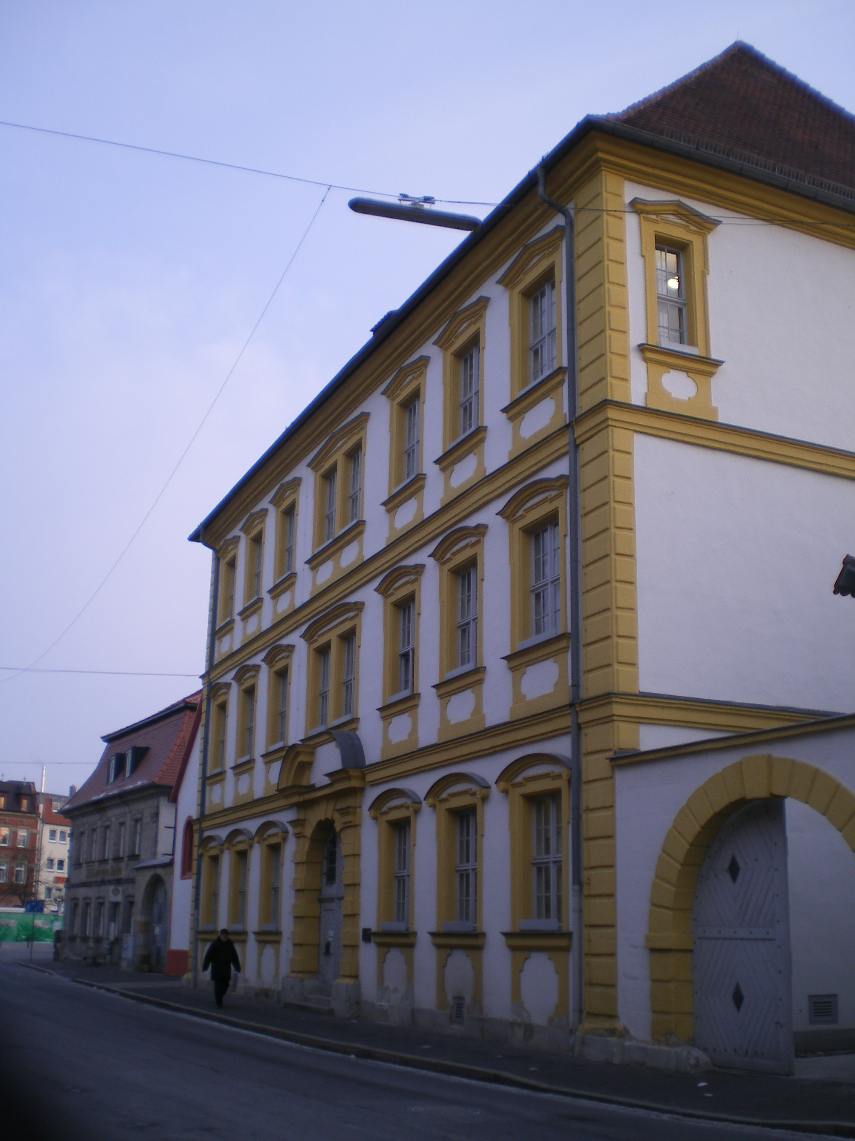 District office in Forchheim/Upper Franconia